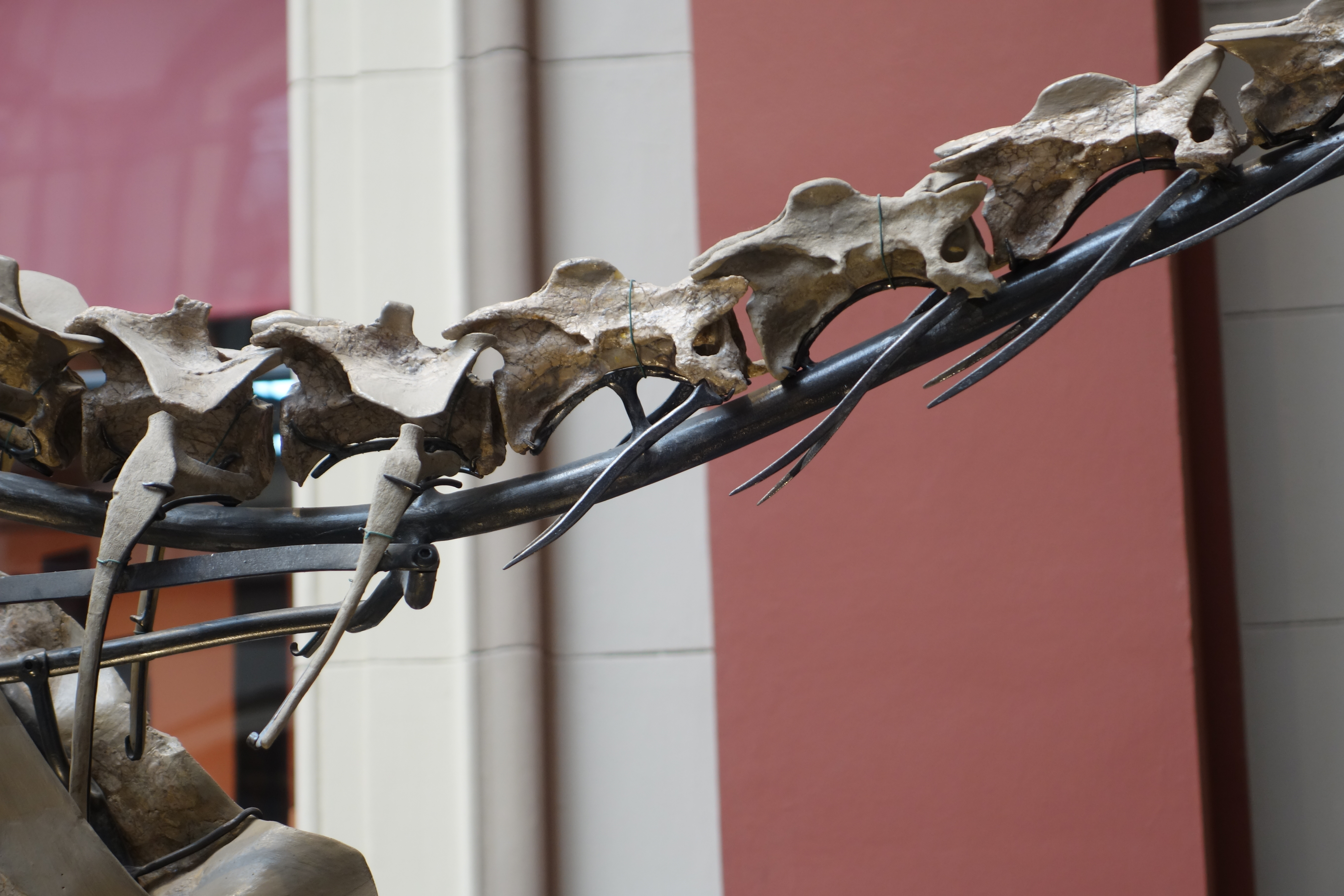 Detail of neck vertebrae of Elaphrosaurus mount in the Museum für Naturkunde, Berlin